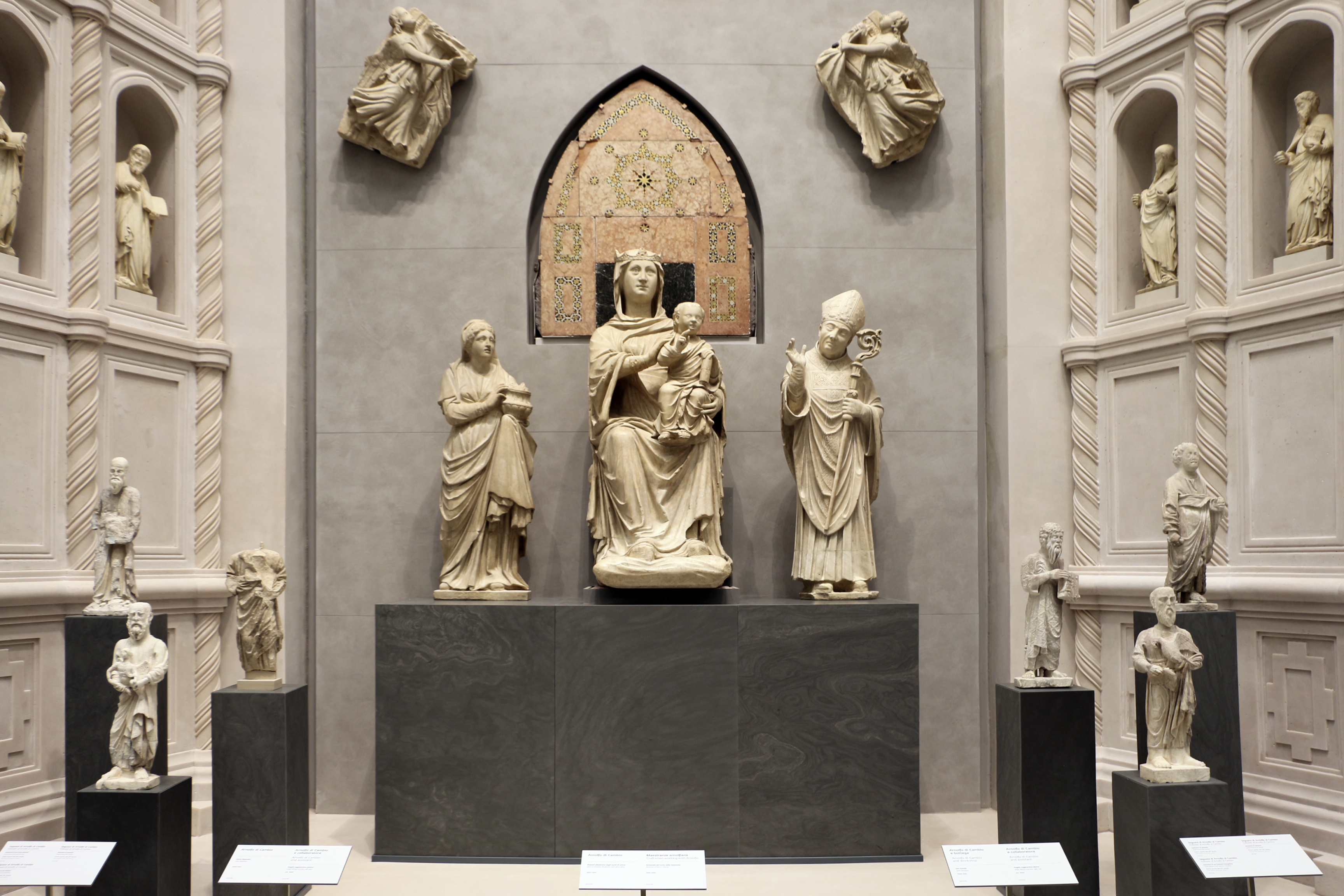 Museo dell'Opera del Duomo (Florence)